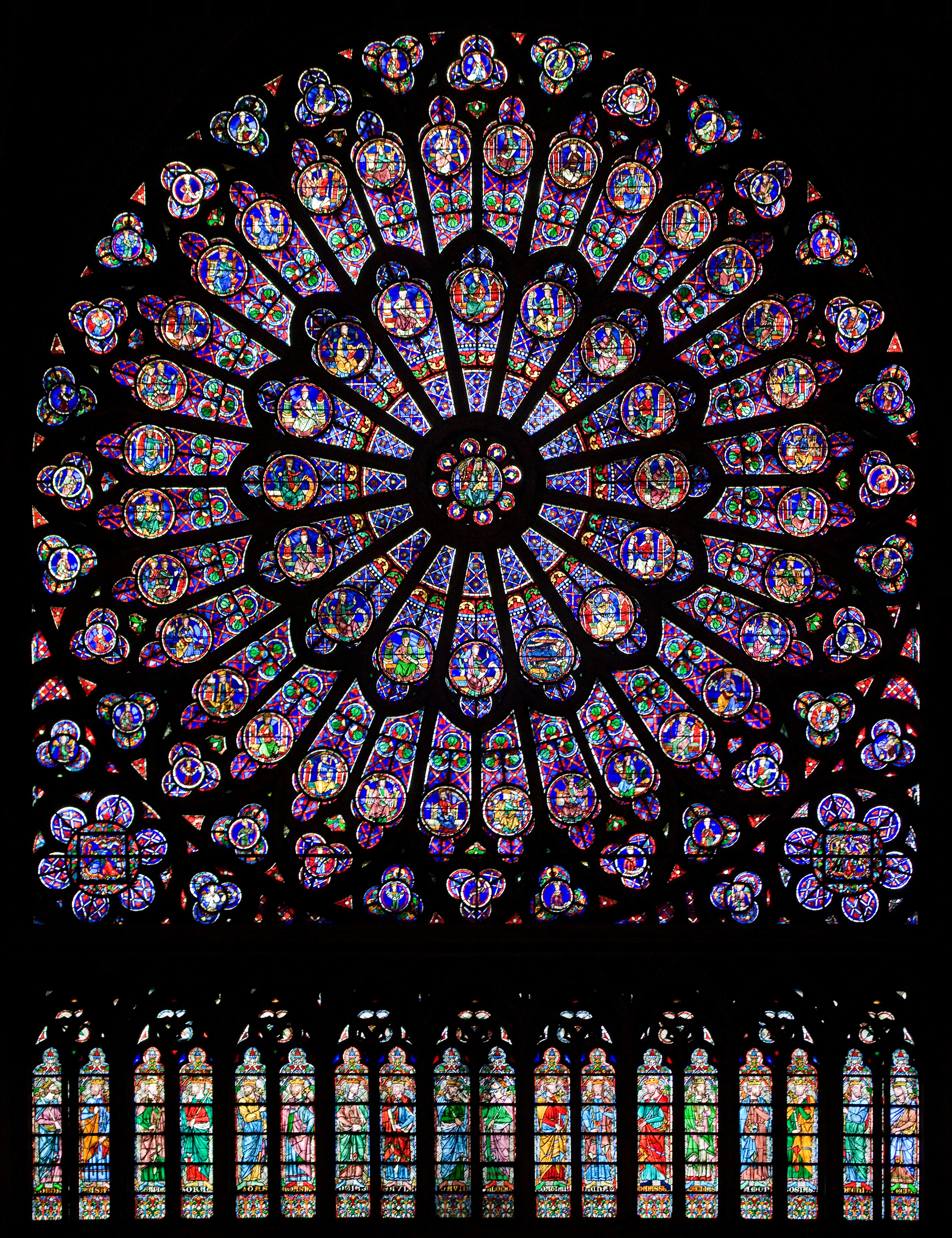 The north rose window of the Cathédrale Notre-Dame de Paris, an example of Rayonnant architecture, and the row of figures in stained glass below.